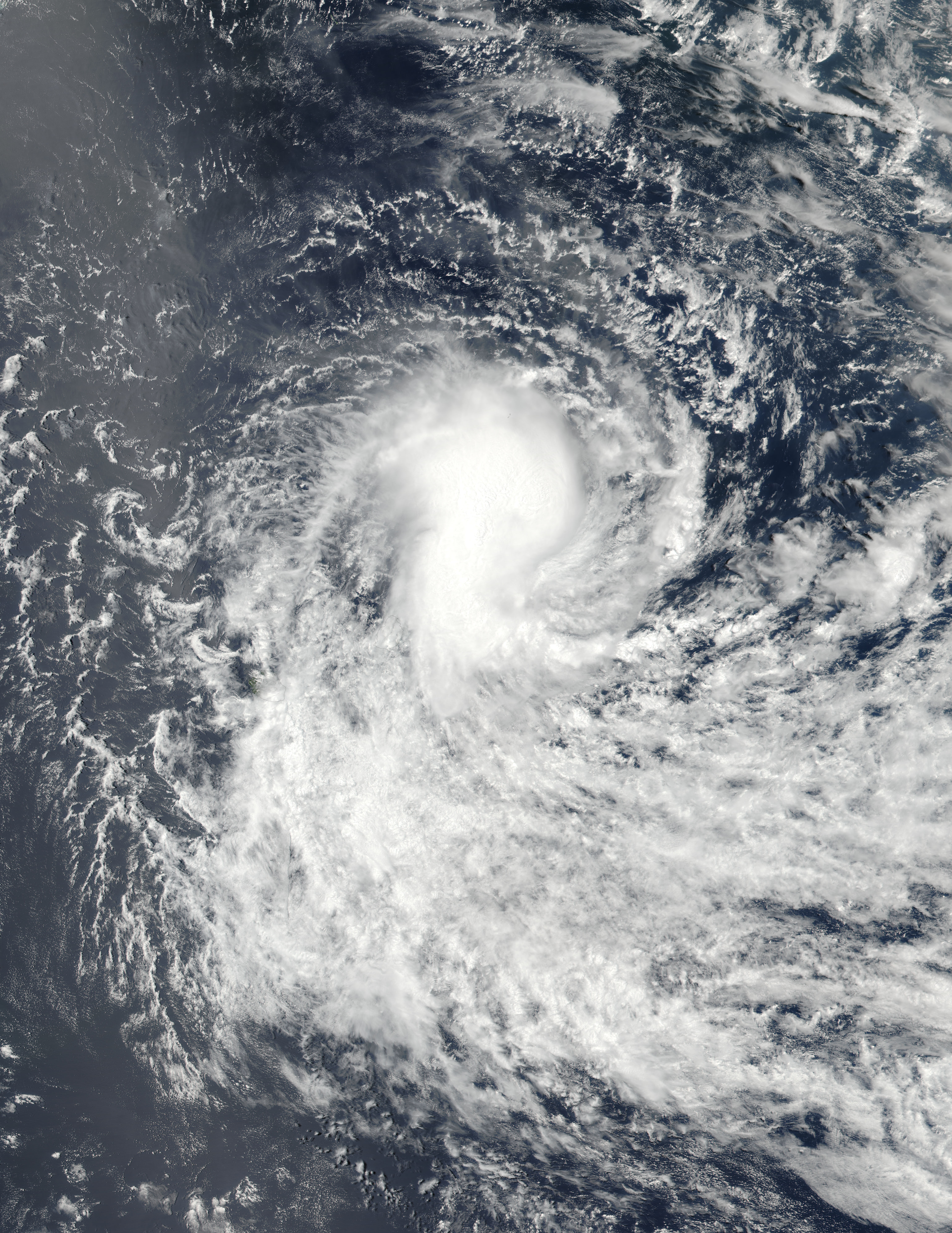 Cyclone Berguitta (06S / 03R) weakening off Madagascar on January 17, 2018